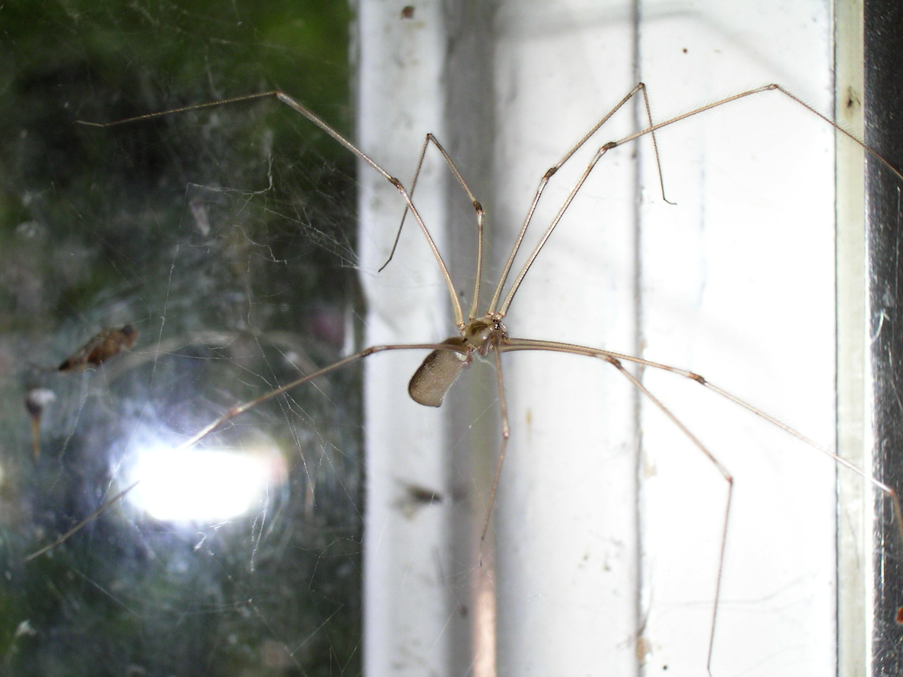 The Daddy long-legs spider, also called the Granddaddy long-legs spider, cellar spider, vibrating spider, or house spider. Kingdom: Animalia Phylum: Arthropoda Class: Arachnida Order: Araneae Suborder: Araneomorphae Family: Pholcidae Template:Daddy long-legs spider User:Tarawneh/rami